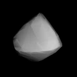 3D convex shape model of 5635 Cole, computed using light curve inversion techniques. J. Hanuš, J. Ďurech, M. Brož, B. D. Warner (June 2011). "A study of asteroid pole-latitude distribution based on an extended set of shape models derived by the lightcurve inversion method". Astronomy and Astrophysics 530: A134. ISSN 0004-6361. arXiv